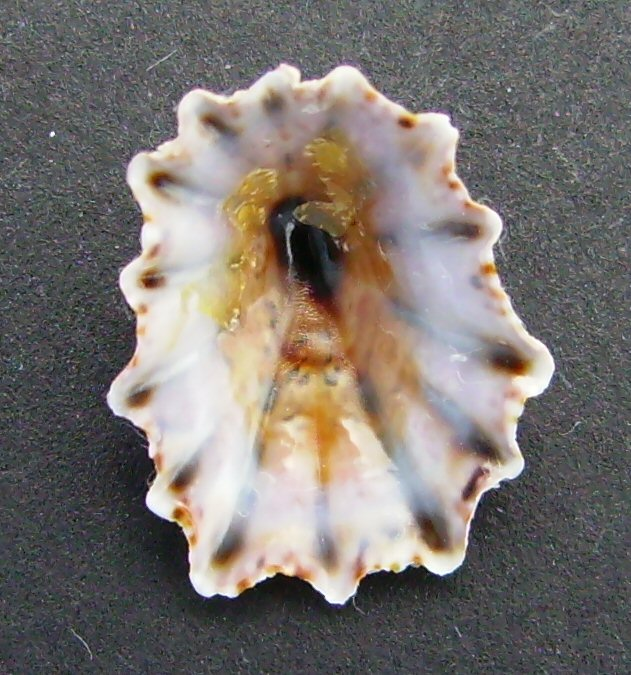 Patelloida corticata (inside) from Whatipu, New Zealand. This work has been released into the public domain by its author, Graham Bould. This applies worldwide. In some countries this may not be legally possible; if so: Graham Bould grants anyone the right to use this work for any purpose, without any conditions, unless such conditions are required by law.